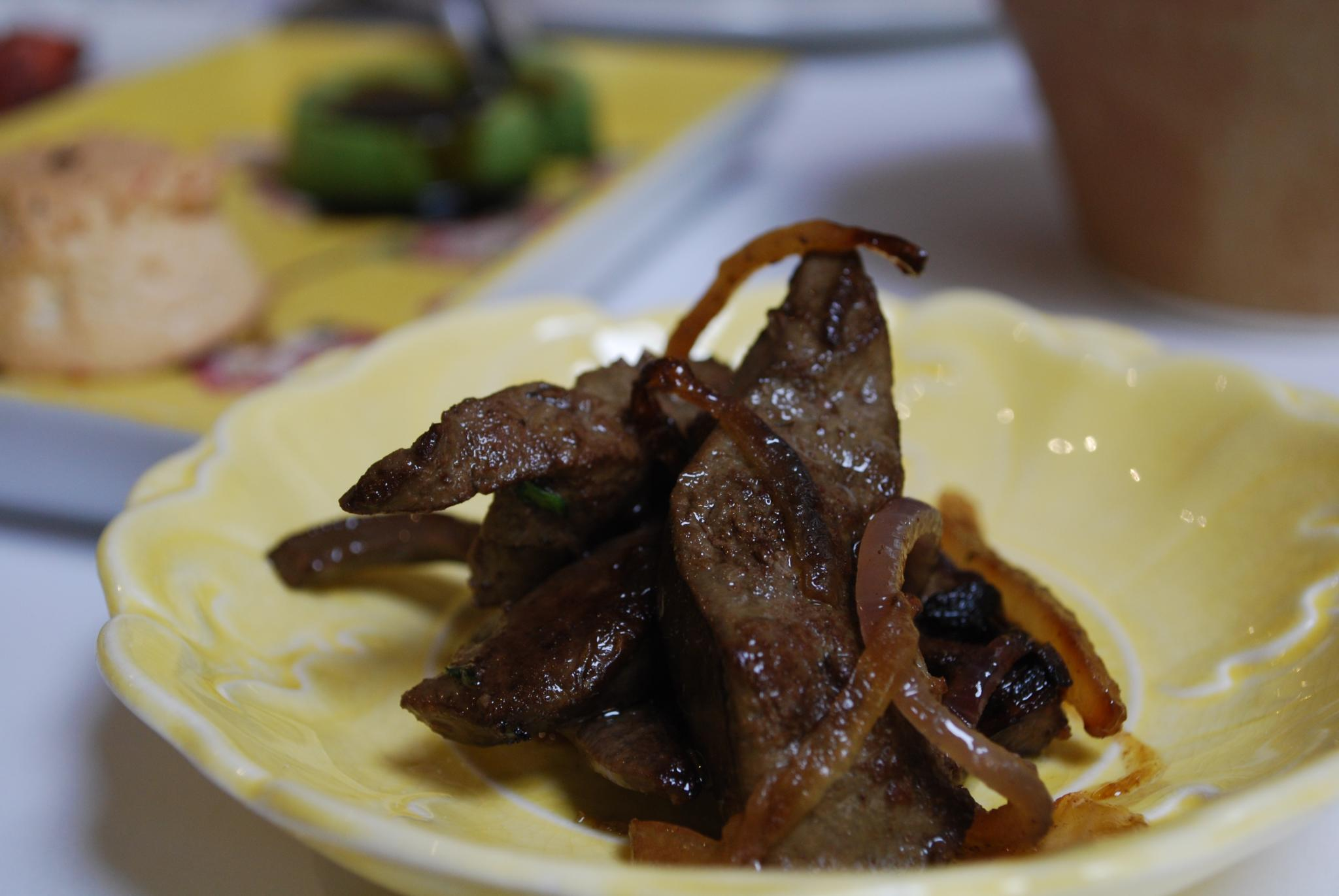 Pan-fried lamb's liver with caramelised onions. (As served at the Tea Rooms of Yarck, Yarck, Victoria, Australia)